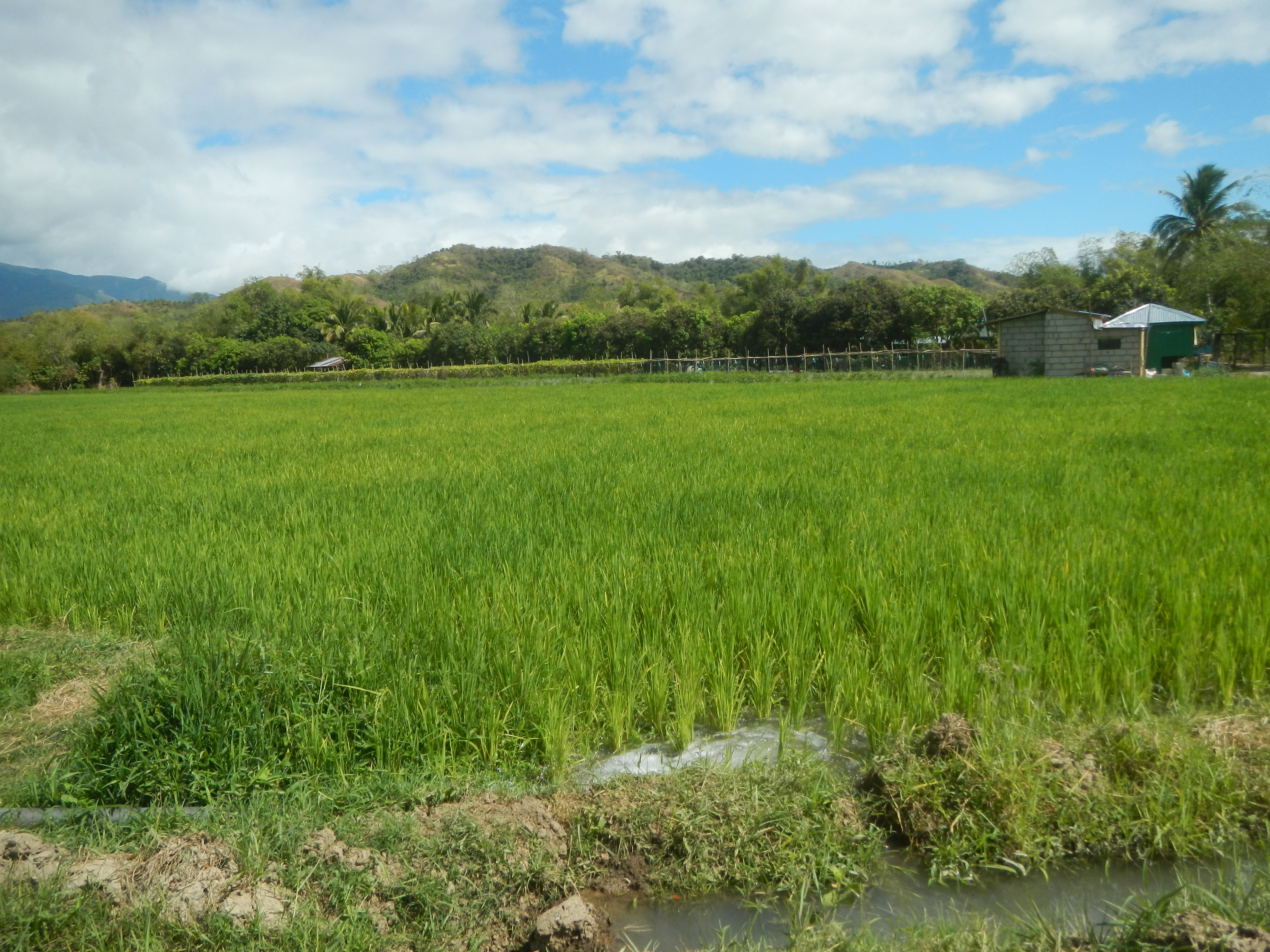 Canantong Elementary School - Museum de Laur, Nueva Ecija Museum de Laur Canantong, Laur, Nueva Ecija from Laur National Highway (Poblacion III-Sagana-San Josef) in Barangay Canantong, Laur 15.5567, 121.1950 Laur, Nueva Ecija, along Laur-Gabaldon, Nueva Ecija Road, connecting from the Nueva Ecija-Aurora Road (Cabanatuan-Palayan City section) from the Pan-Philippine Highway, also known as the Maharlika "Nobility/freeman" Highway in Cagayan Valley Road Philippine highway network (Note: Judge Florentino Floro, the owner, to repeat, Donor Florentino Floro of all these photos hereby donate gratuitously, freely and unconditionally Judge Floro all these photos to and for Wikimedia Commons, exclusively, for public use of the public domain, and again without any condition whatsoever).